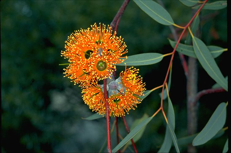 Flowers of Eucalyptus miniata in a private garden in Brisbane